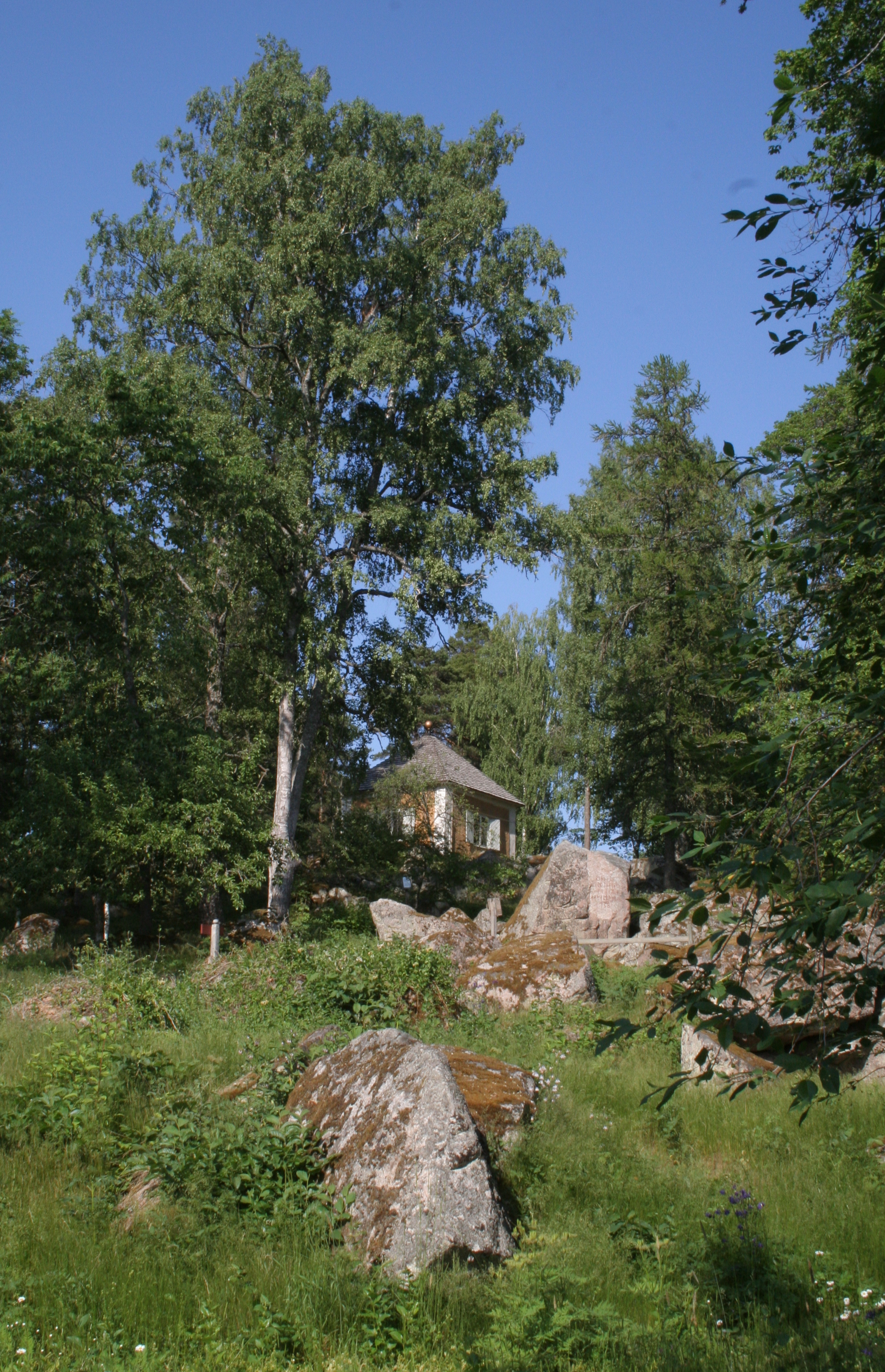 Linnaeus' garden near Hammarby